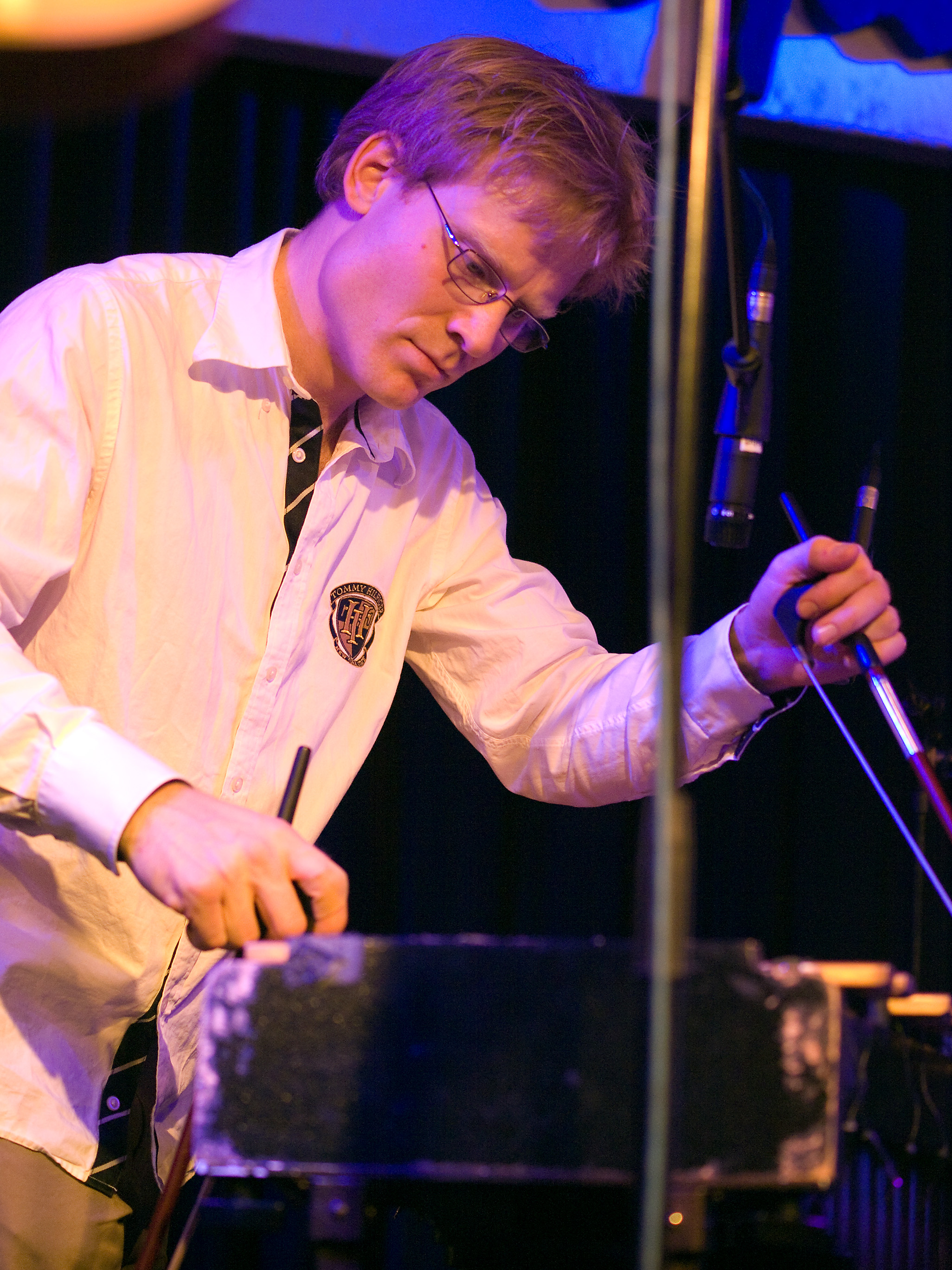 Karl Ivar Refseth, Jazz vibraphonist; Picture taken in Jazz Club Unterfahrt, Munich/Bavaria